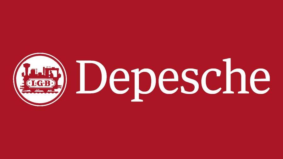 Logo of the LGB Depesche newspaper (EA), Germany.